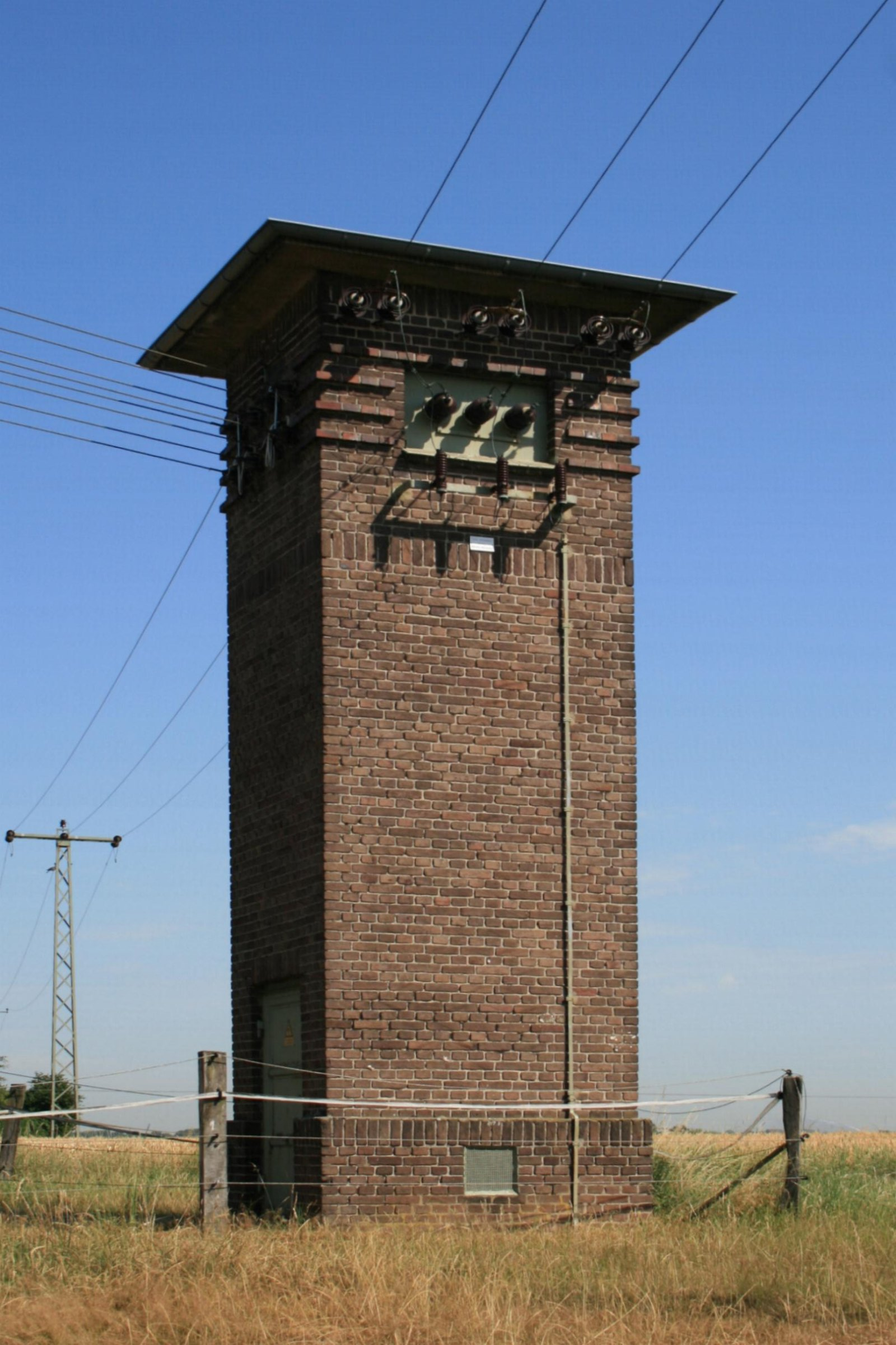 Cultural heritage monument No. A 051 in Mönchengladbach